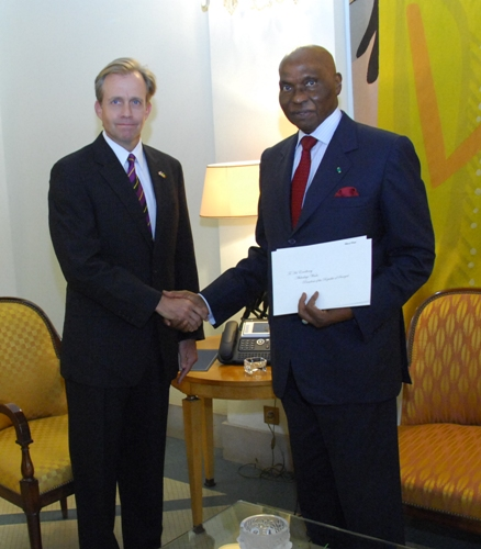 United States Ambassador to Senegal, Lewis A. Lukens, presenting his credentials to President Abdoulaye Wade in Dakar, August 11, 2011.